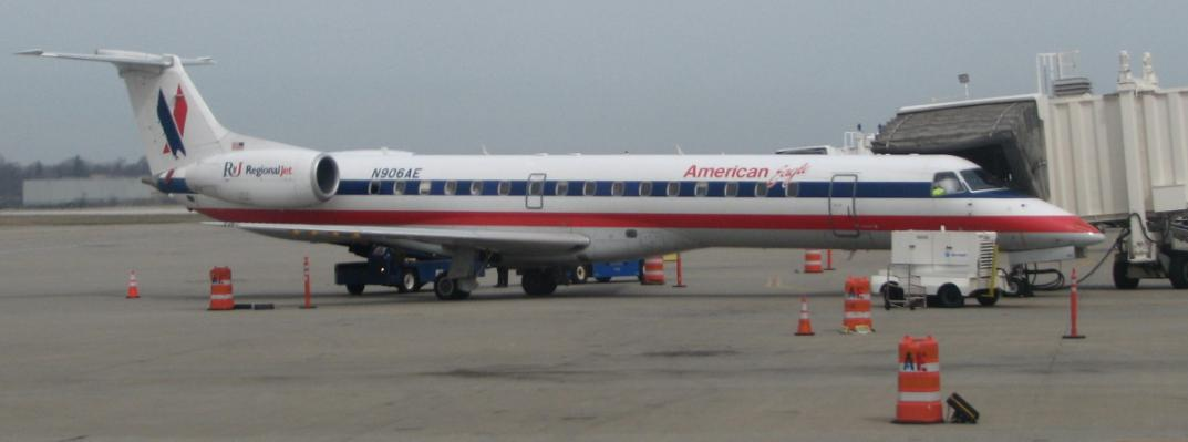 An Embraer ERJ 145 Regional jet run by American Eagle Airlines parked at a gate at Cleveland Hopkins International Airport in Cleveland, Ohio. Facts about this particular plane: Built in 2005 55 Seats 2 Engines (Rolls-Royce AE3007 SER)